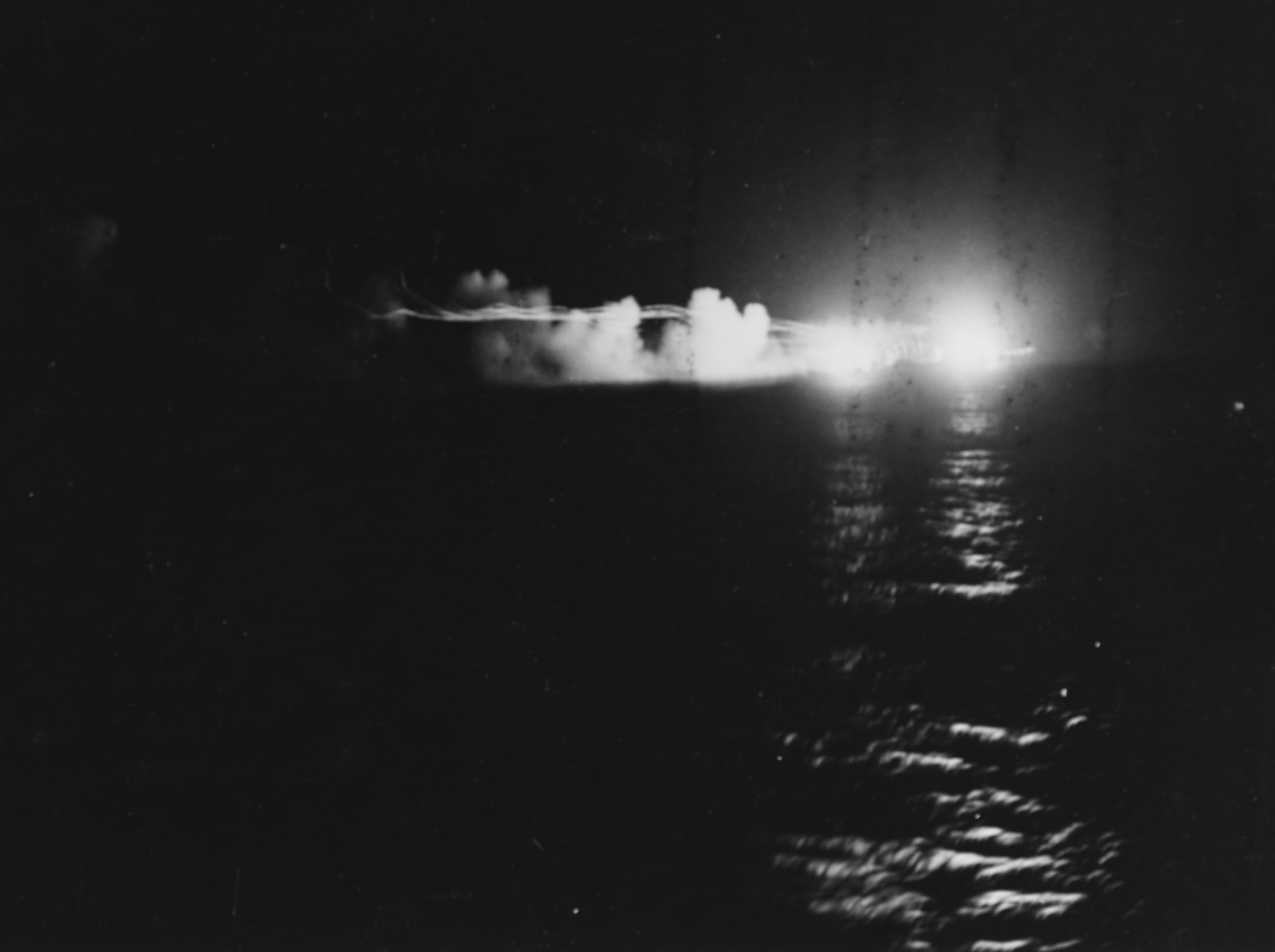 The light cruisers USS St. Louis (CL-49) and HMNZS Leander (75) firing during the Battle of Kolombangara, 13 July 1943. This is probably the battle's initial engagement, in which the Japanese light cruiser Jintsu was sunk by gunfire and torpedo hits and Leander was heavily damaged by a Japanese torpedo.